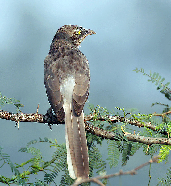 Large Grey Babbler Turdoides malcolmi at Hodal in Faridabad District of Haryana, India.